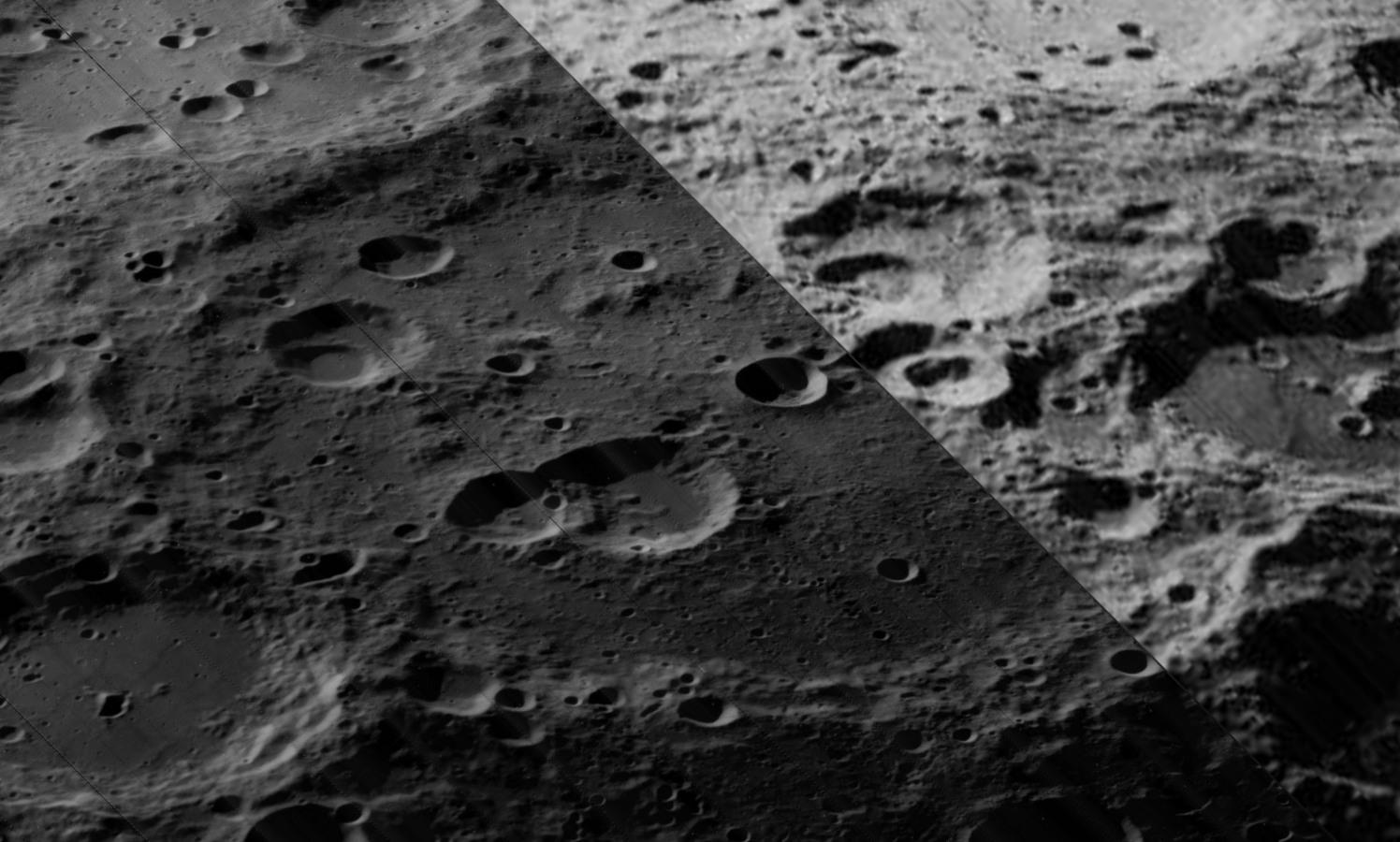 Oblique view of Birkhoff on the far side of the moon, facing west. Mosaic of high-resolution (H) frame and low-resolution (M) frame.